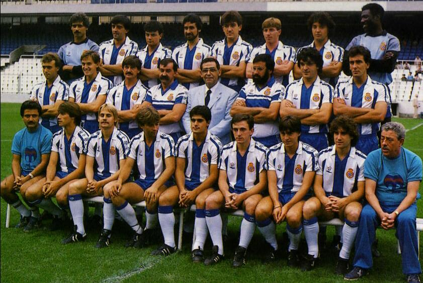 RCD Espanyol team in the eighties.